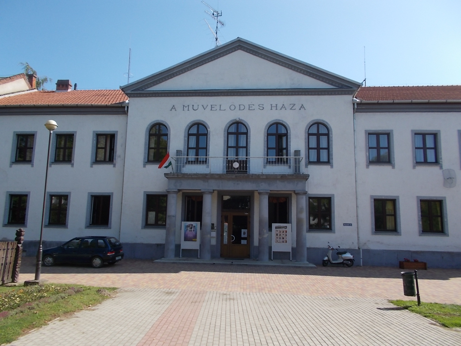 City Cultural Center and Library named after Zsigmond Móricz. On the 2nd floor a small ethnographic exhibition located. - Kossuth Square, Fehérgyarmat, Szabolcs-Szatmár-Bereg County, Hungary.